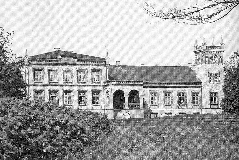 Taali parish older